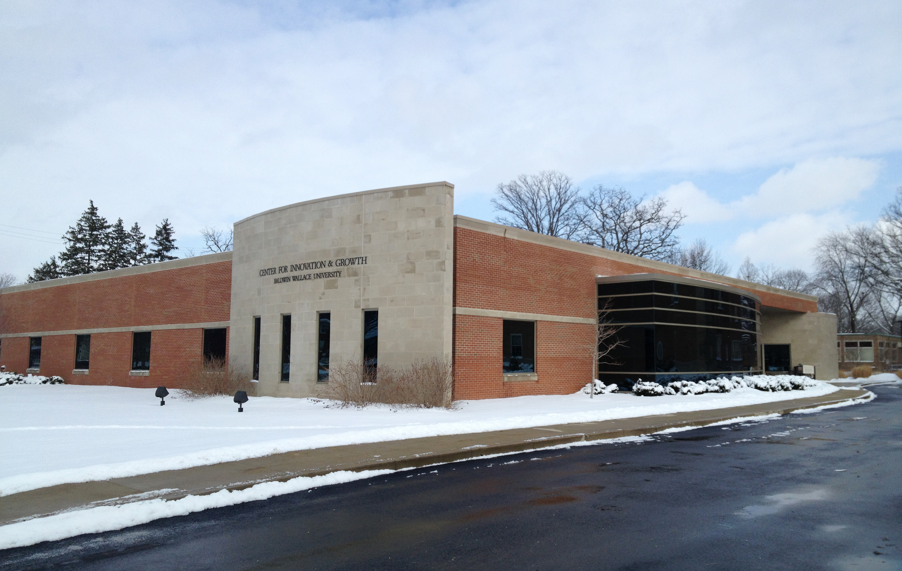 Center for Intovation and Growth on Baldwin Wallace University North Campus